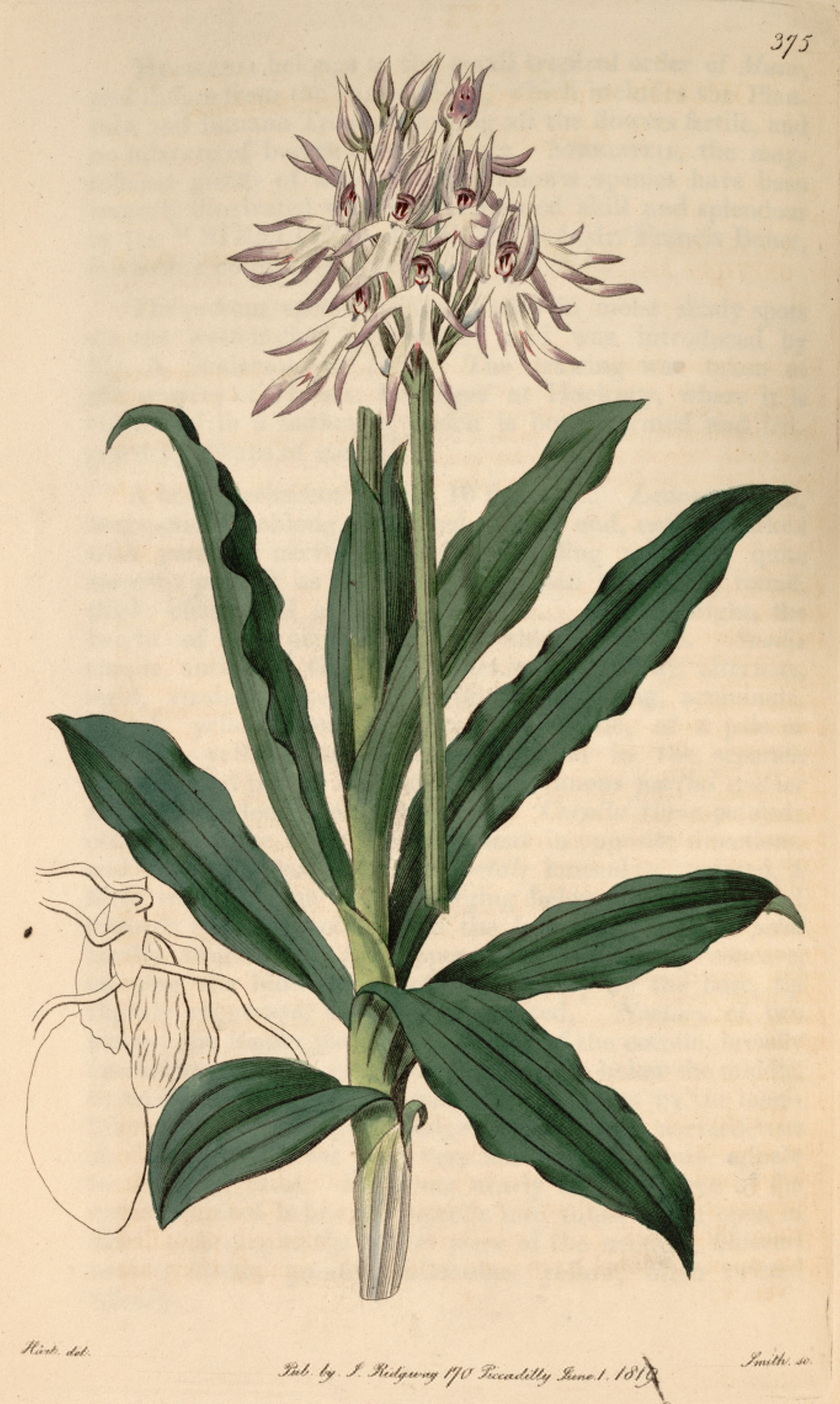 Illustration of Orchis simia (as syn. Orchis tephrosanthos Vill.)